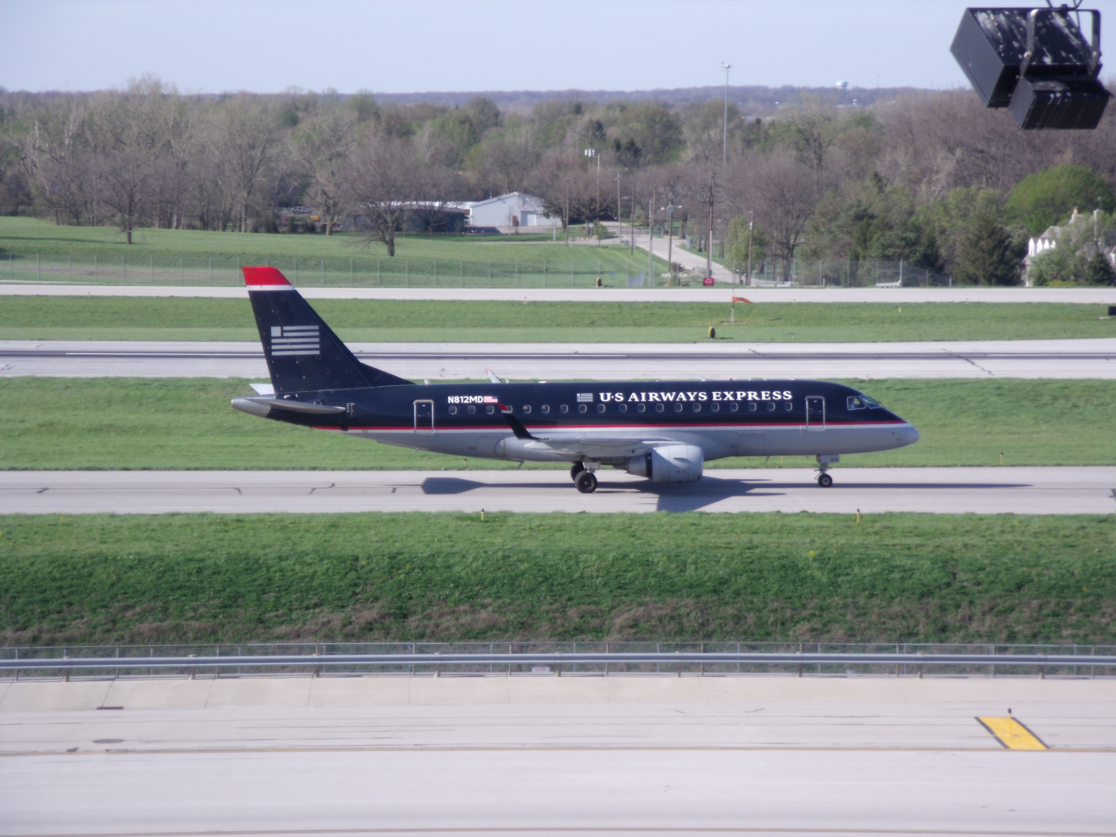 ERJ-170 KCMH